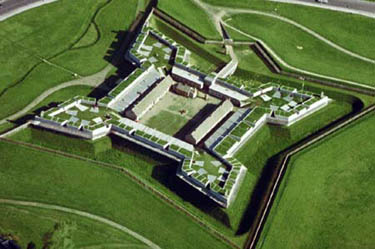 Areal view of Fort Stanwix National Monument, Rome, New York, USA